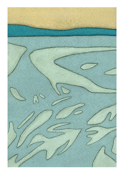 ENPAKU, 2011 by Tobi Kahn Acrylic on Canvas over Wood 72x44x2.5 in Aligned Exhibition